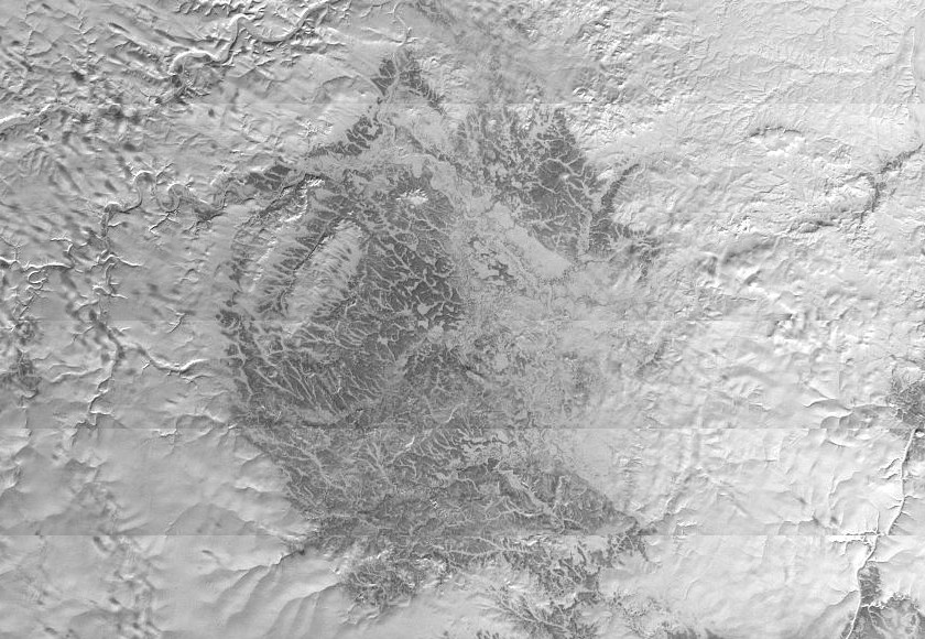 Popigai crater, Siberia, Russia. Mosaic of six panoramic camera images (DS1040-1037DA019 to DS1040-1037DA024), acquired in 1967. North is up and to the right.